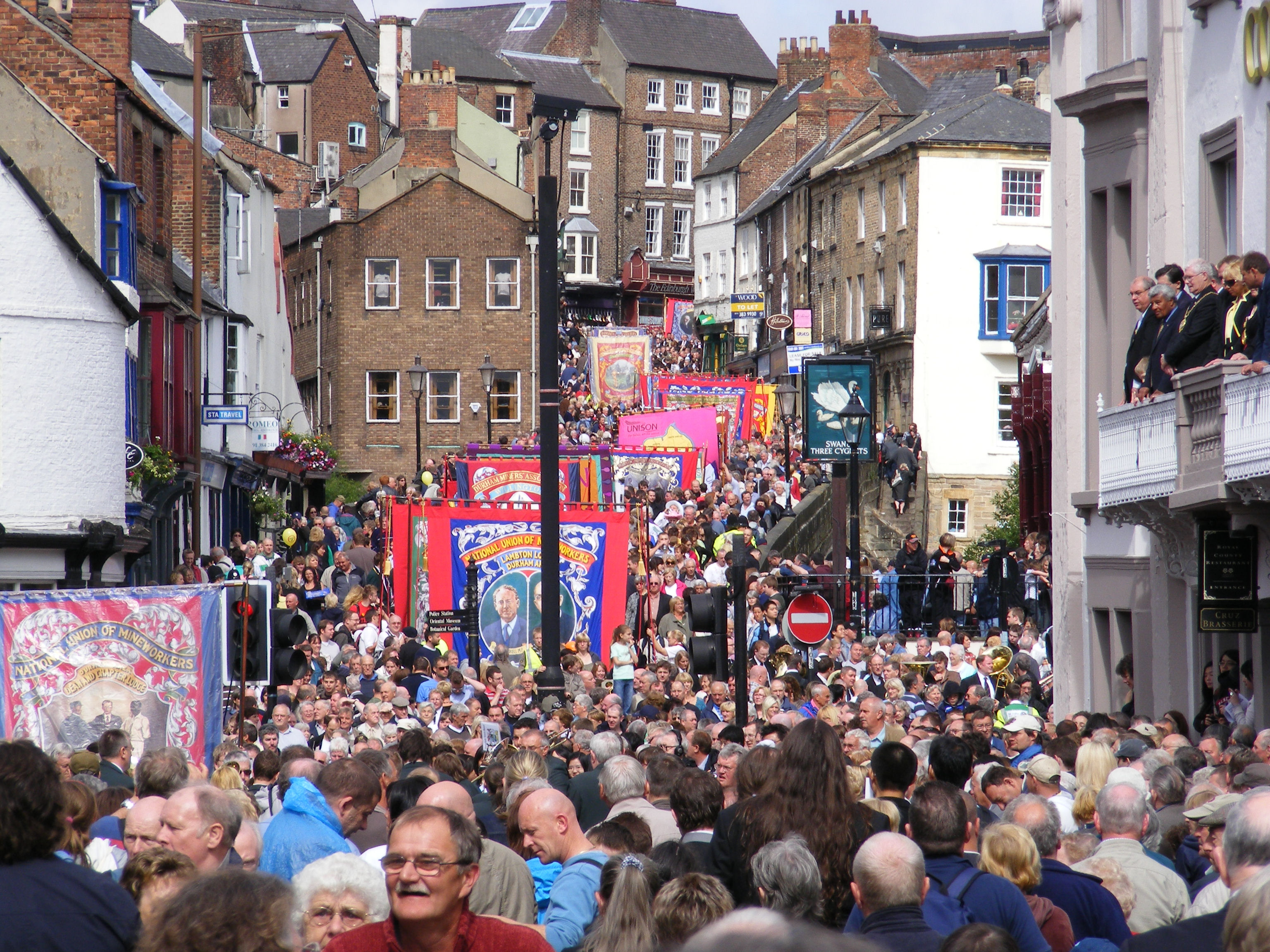 The banners and bands coming down Old Elvet Bridge.